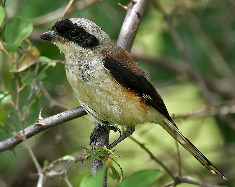 Bay-backed Shrike Lanius vittatus at Ananthagiri Hills, in Rangareddy district of Andhra Pradesh, India.